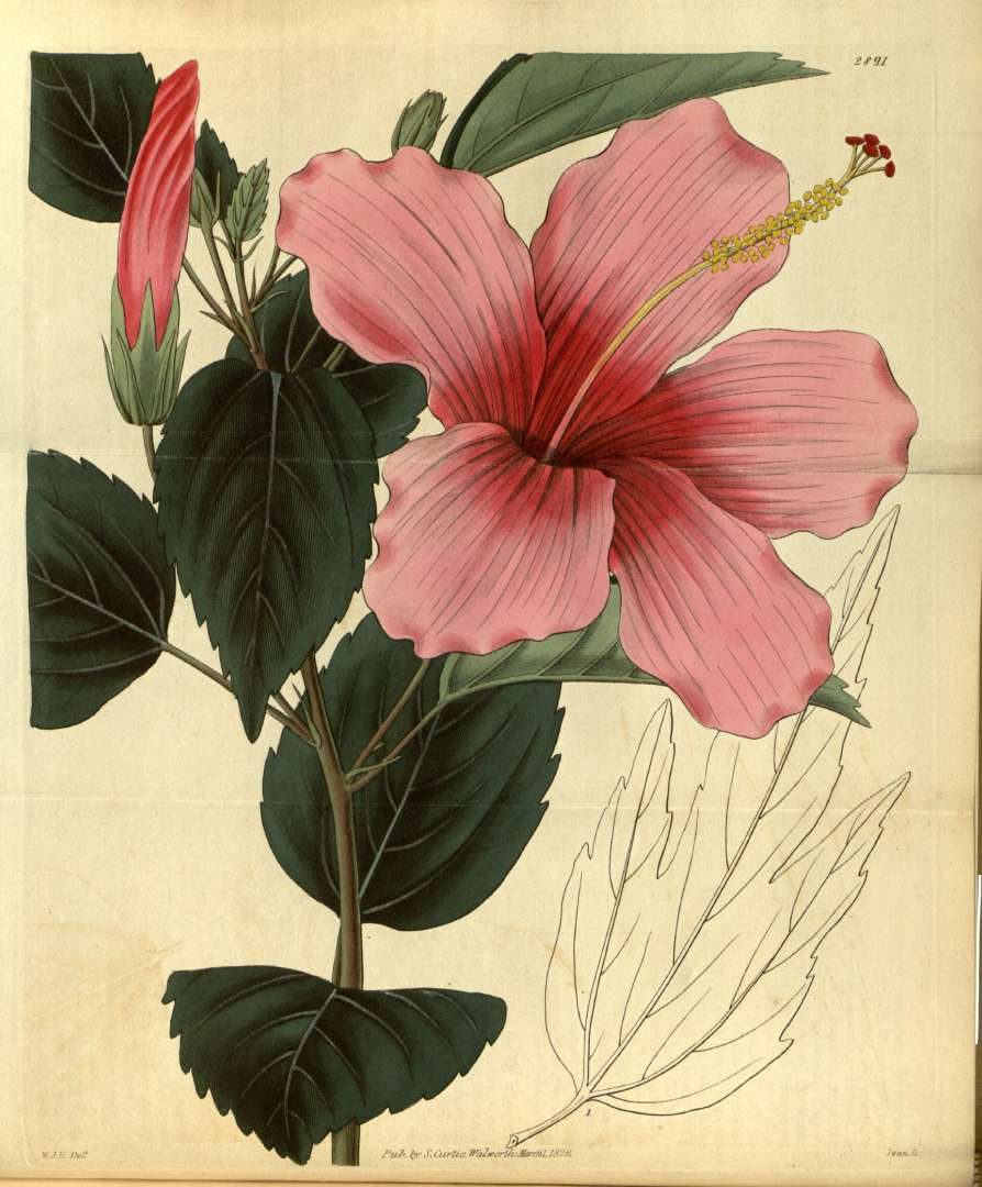 Hibiscus liliiflorus